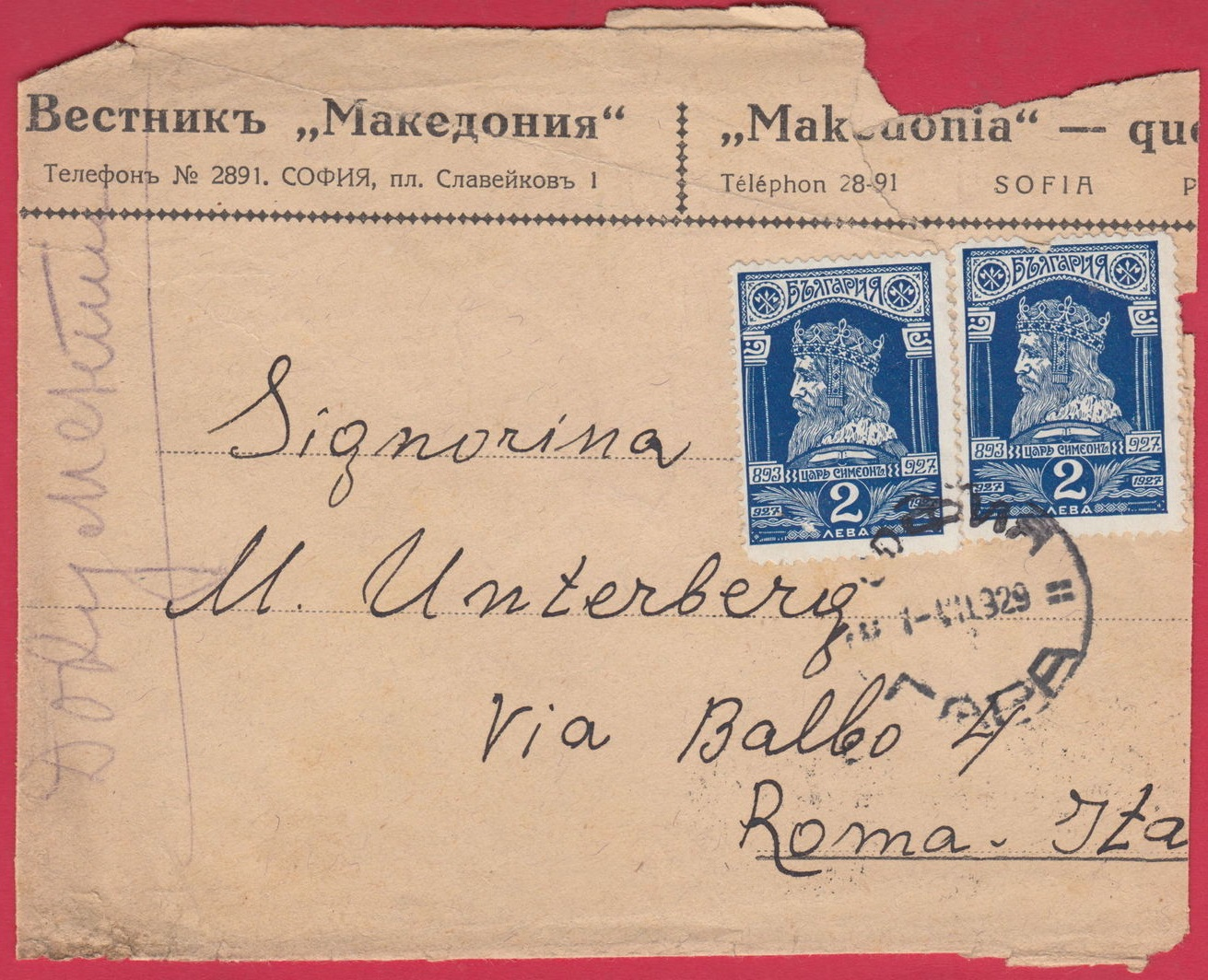 Macedonia Newspaper Letter